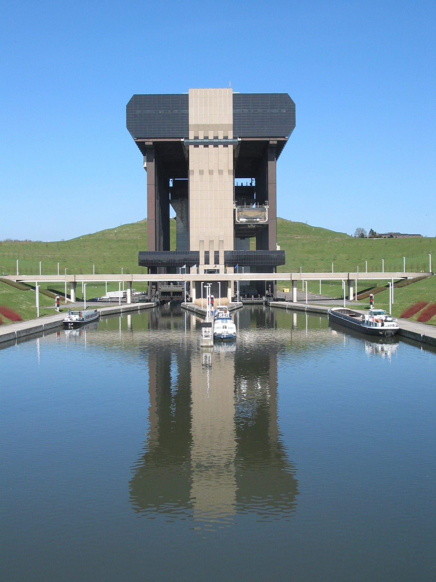 Strépy-Bracquegnies (Belgium), the biggest ship elevator in Europe.